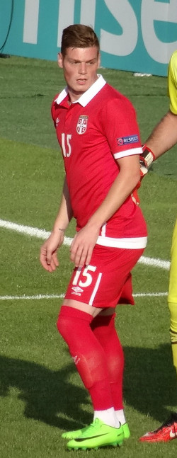 UEFA European U-21 Championship Poland 2017. Group B Serbia - Macedonia (2:2), Zdzisław Krzyszkowiak Stadium in Bydgoszcz